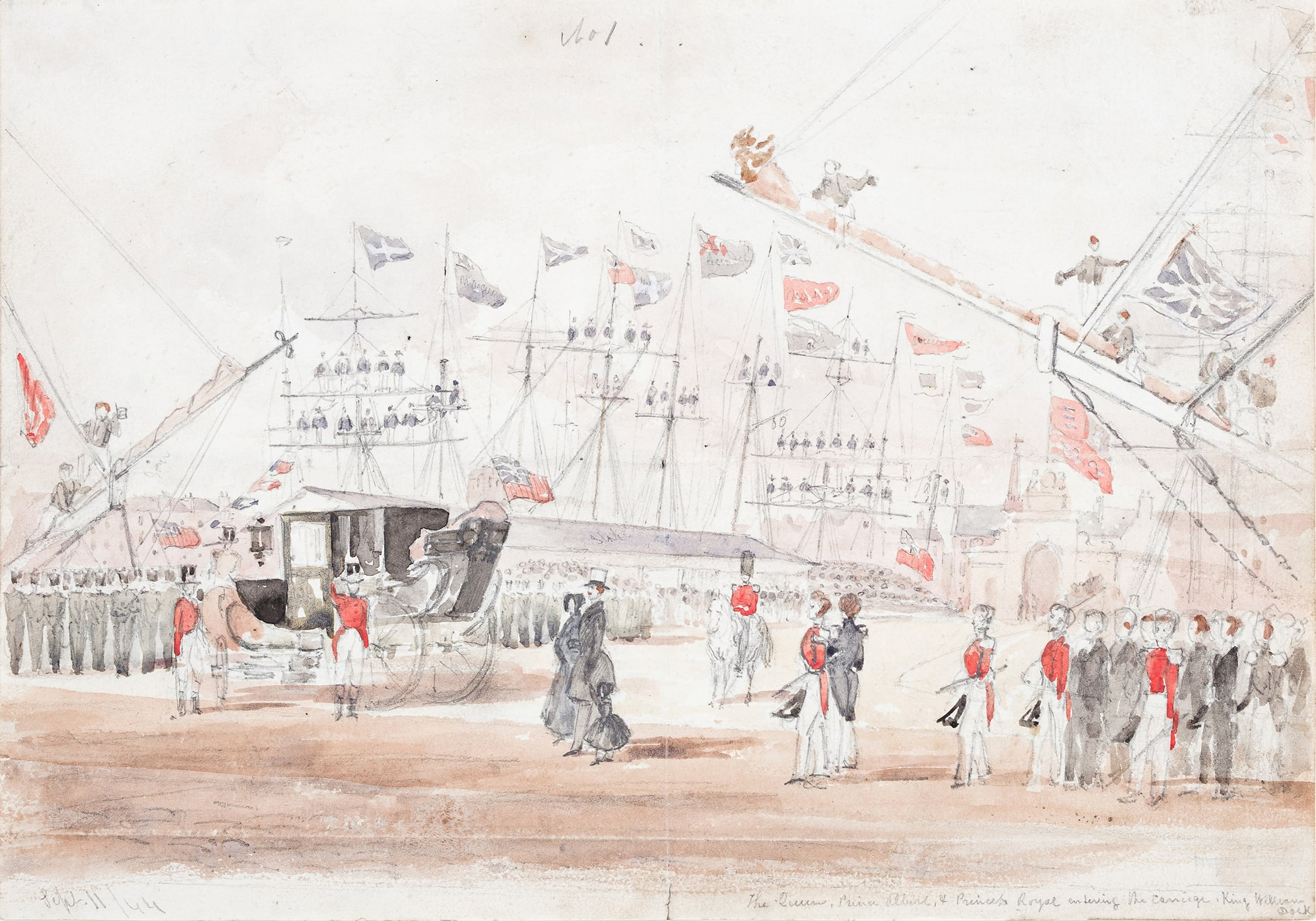 Dundee: ‘The Queen, Prince Albert, & Princess Royal on leaving the Carriage, King William Dock’. Pencil and watercolour. Inscribed and dated ‘Sept 11th (18)44’. Provenance: an album of studies by Landells. 7x10 inches. Offered for sale by Abbott and Holder in August 2019.